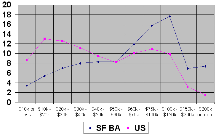 I created the graph myself using data from the US Department of Commerce.